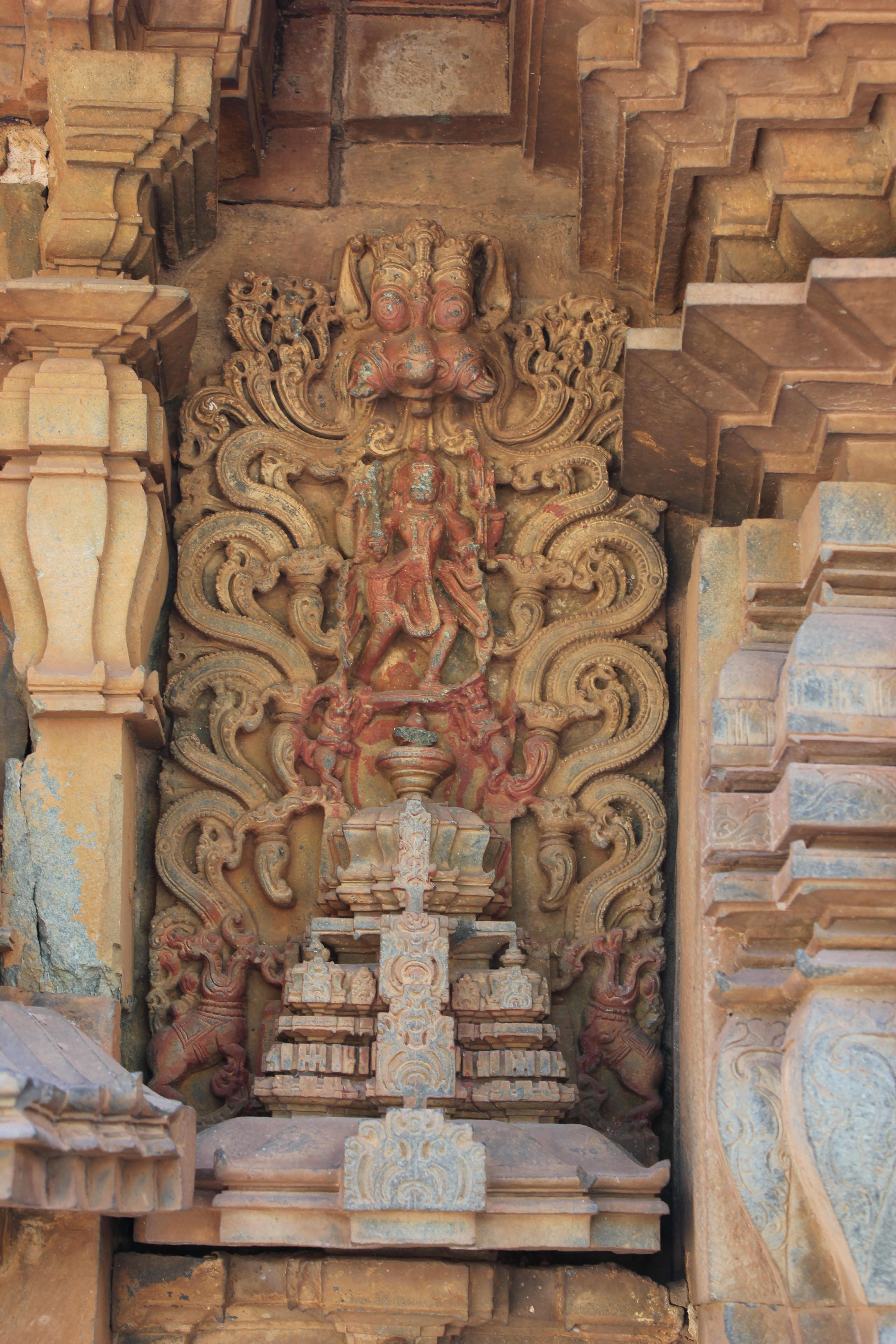 The Siddhesvara temple (also spelt Siddesvara or Siddheswara) was consecrated during the rule of the Kalyani (Western) Chalukya king Vikramaditya VI in the late 11th century and completed in the 12th century. Haveri is a town in the Haveri district of the Karnataka state, India.